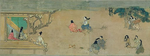 The illustrated biography of priest Hōnen (紙本著色法然上人絵伝). Part of the handscroll (Emakimono), illustrated biographies of famous priests (高僧伝絵, kousōdene?), 48 volumes. Color on paper. Located at Chion-in, Kyoto, Japan. The scroll has been designated as National Treasure of Japan in the category paintings.